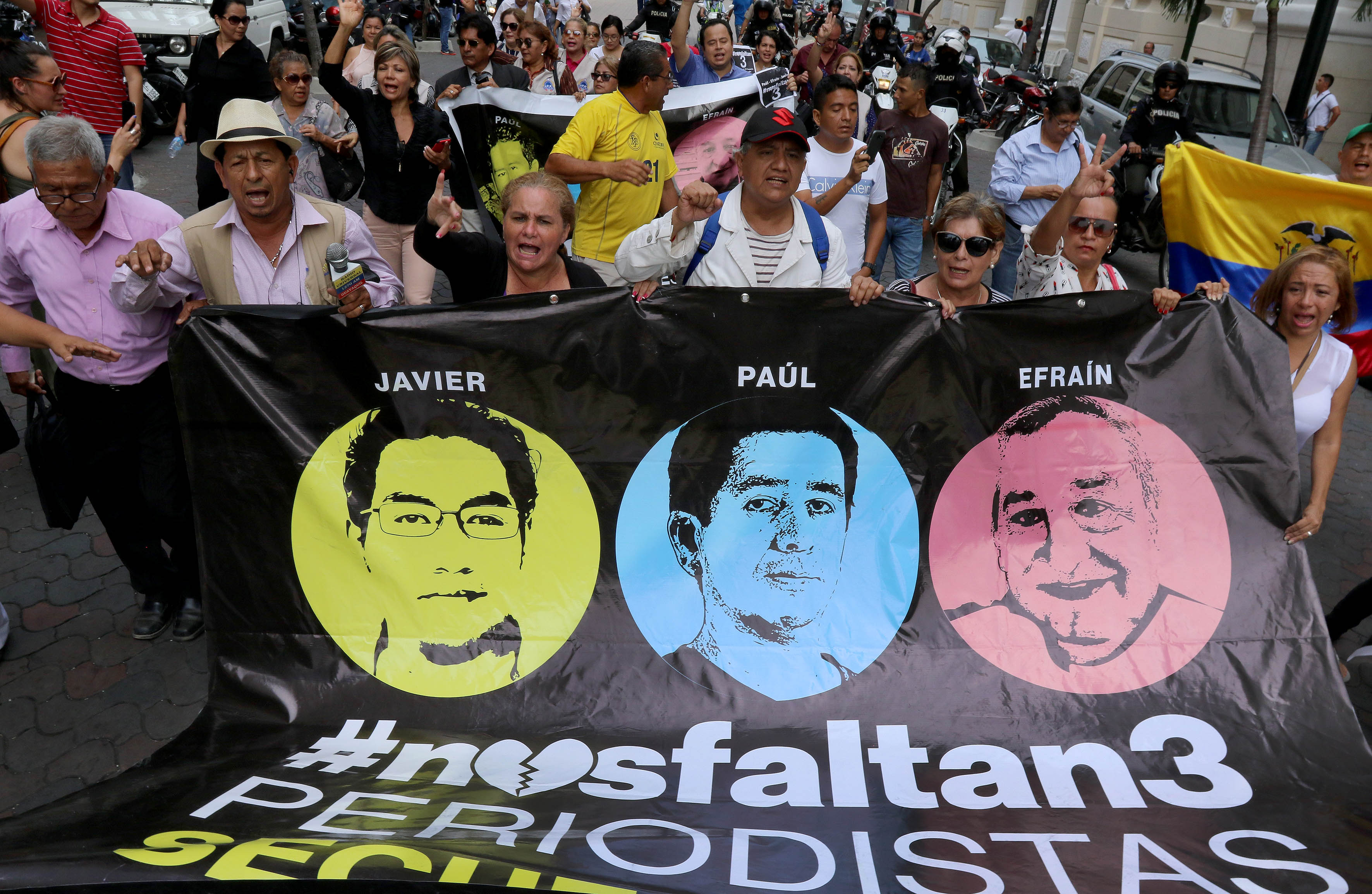 Guayaquil, viernes 13 de abril del 2018 (Andes).-Varios comunicadores realizaron un plantón en la plaza Rocafuerte frente a la iglesia San Francisco en apoyo a los compañeros secuestrados.Foto:CésarMuñoz/Andes